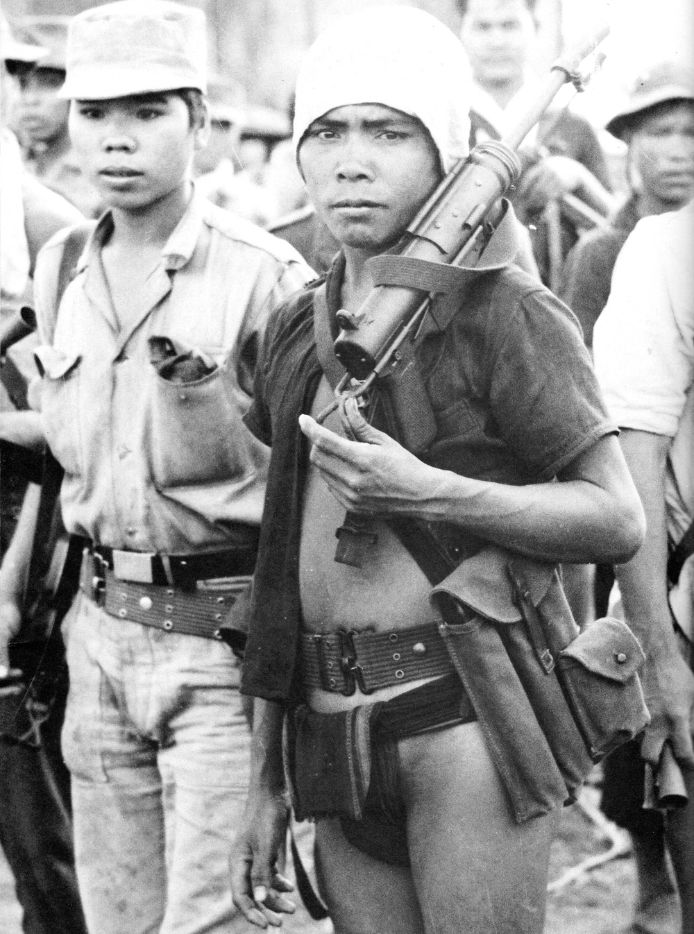 A Montagnard tribesman during training in 1962.